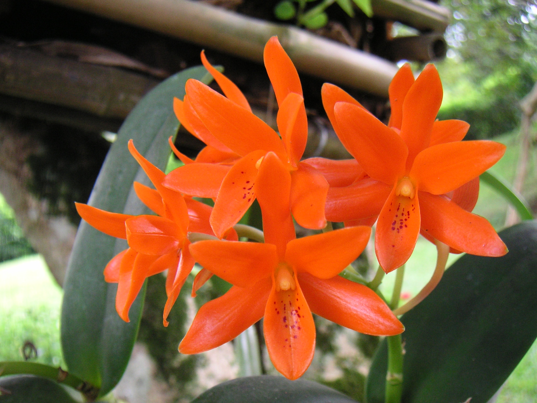 Guarianthe aurantiaca (Bateman ex Lindl.) Dressler & W. E. Higgins 2003 - Orchidaceae - Cali / KolumbienSynonym: Cattleya aurantiaca